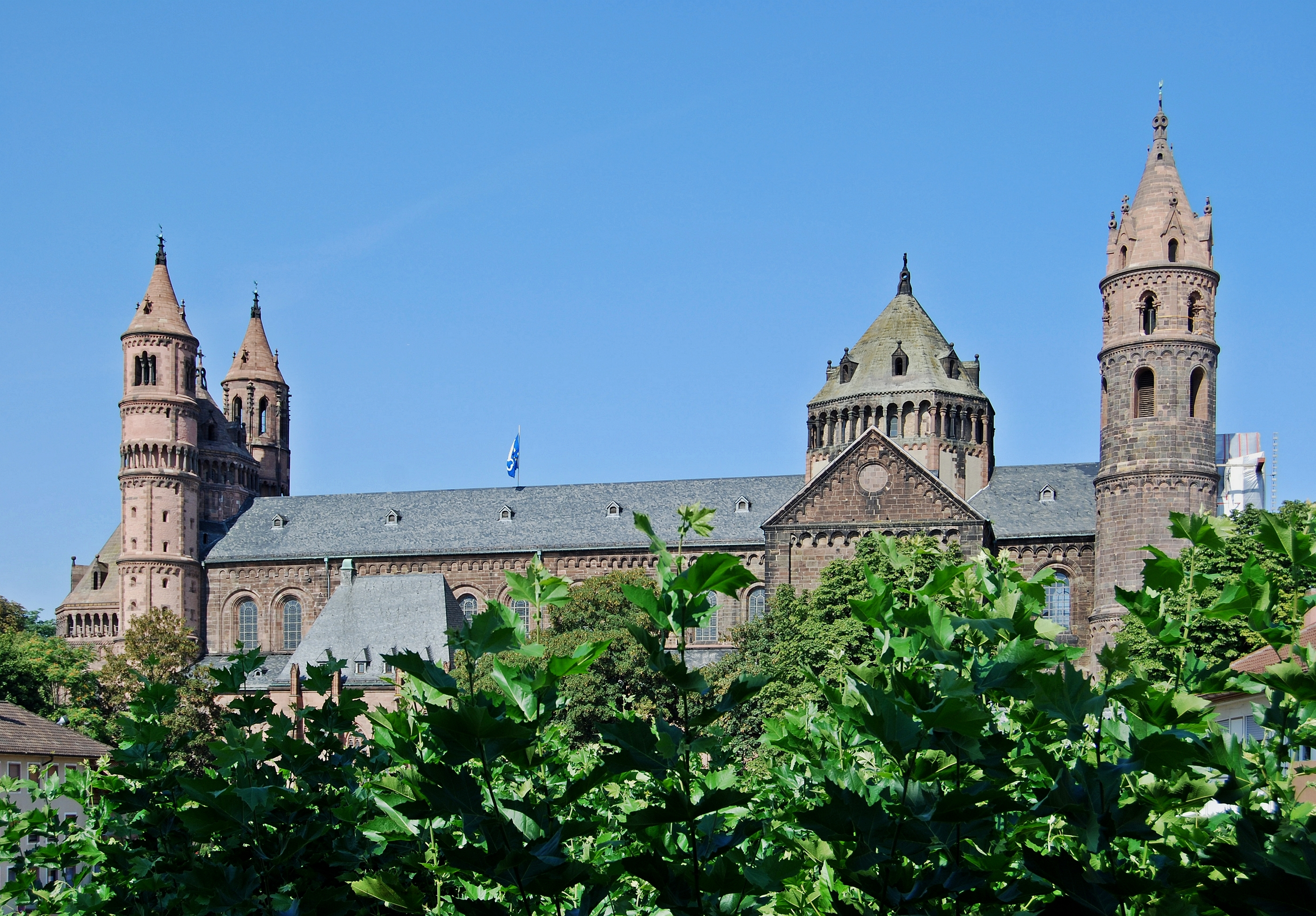 View of Cathedral of St Peter, Worms, Rhineland-Palatinate.